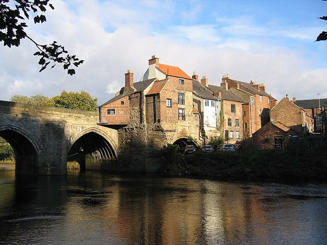 Old Elvet Bridge on a sharp autumn day, near to Durham, County Durham, Great Britain.